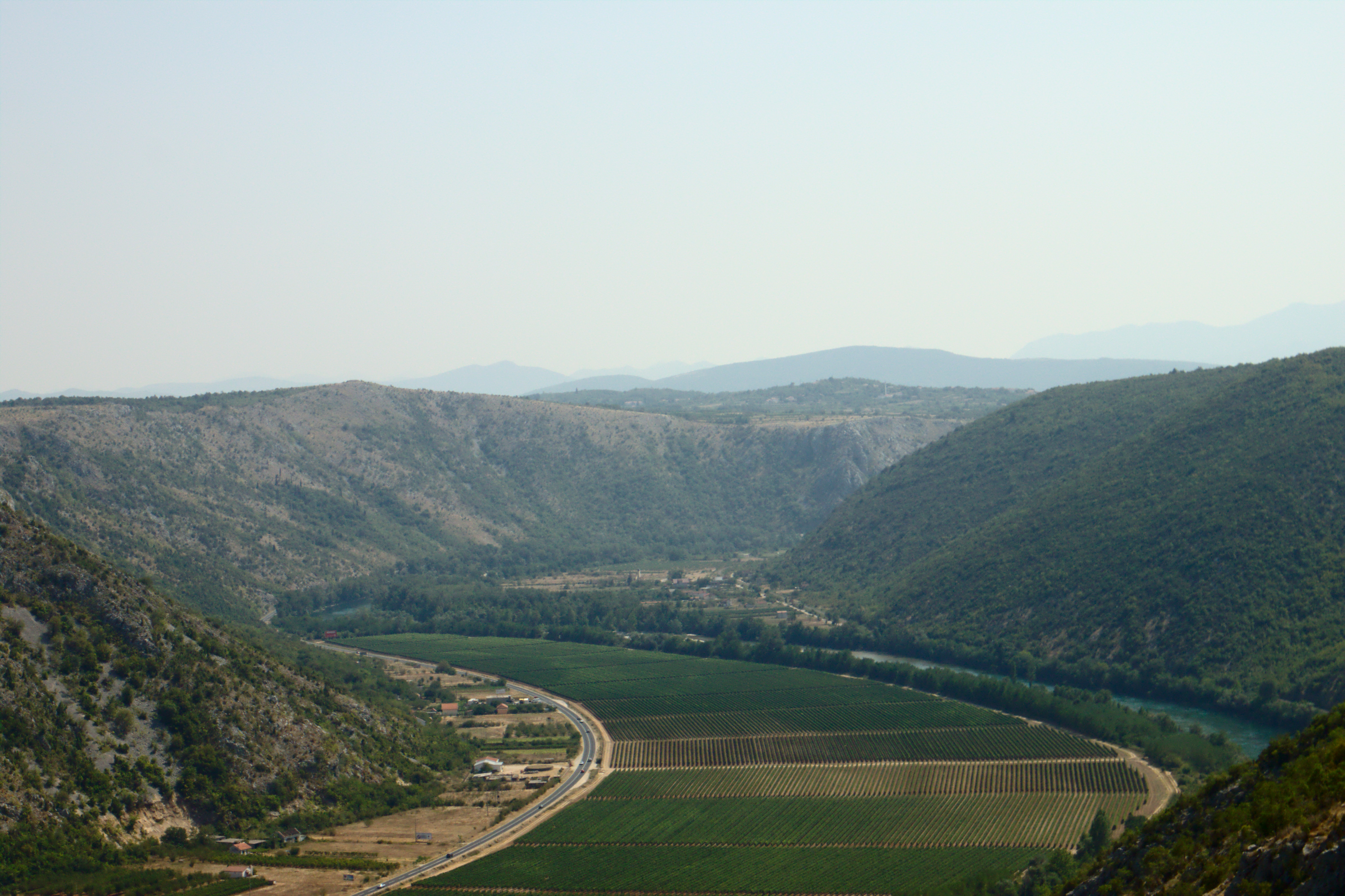 View of the Neretva River valley in Žitomislići, Bosnia and Herzegovina Srpskohrvatski / српскохрватски: Pogled u dolinu reke Neretve blizu sela Žitomislići, Bosna i Hercegovina